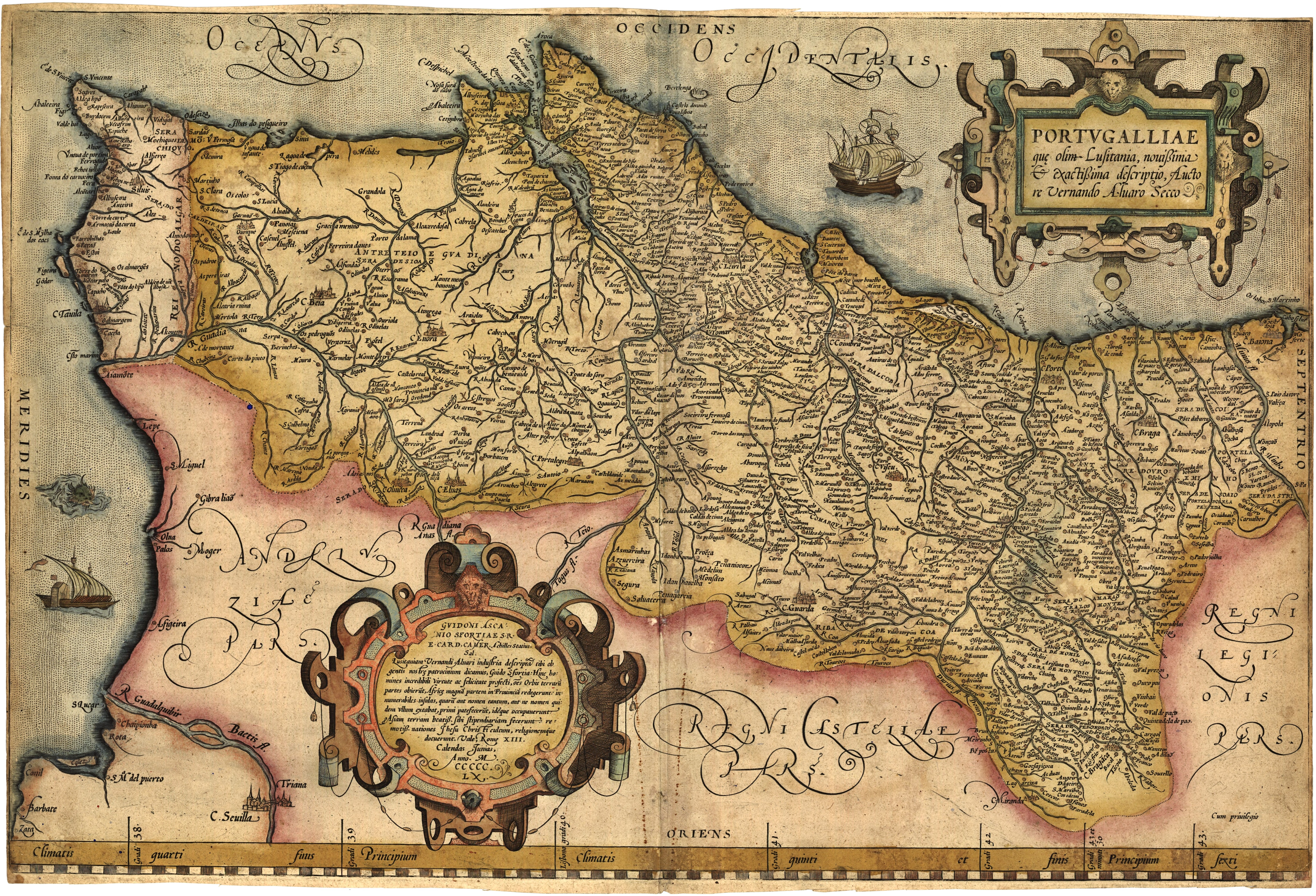 Portugalliae que olim Lusitania, novissima & exactissima descriptio. [1] Adaptation in the "Theatrum Orbis Terrarum" (1570) de Abraham Ortelius from the alleged first map of Portugal (1560) by Álvaro Seco.